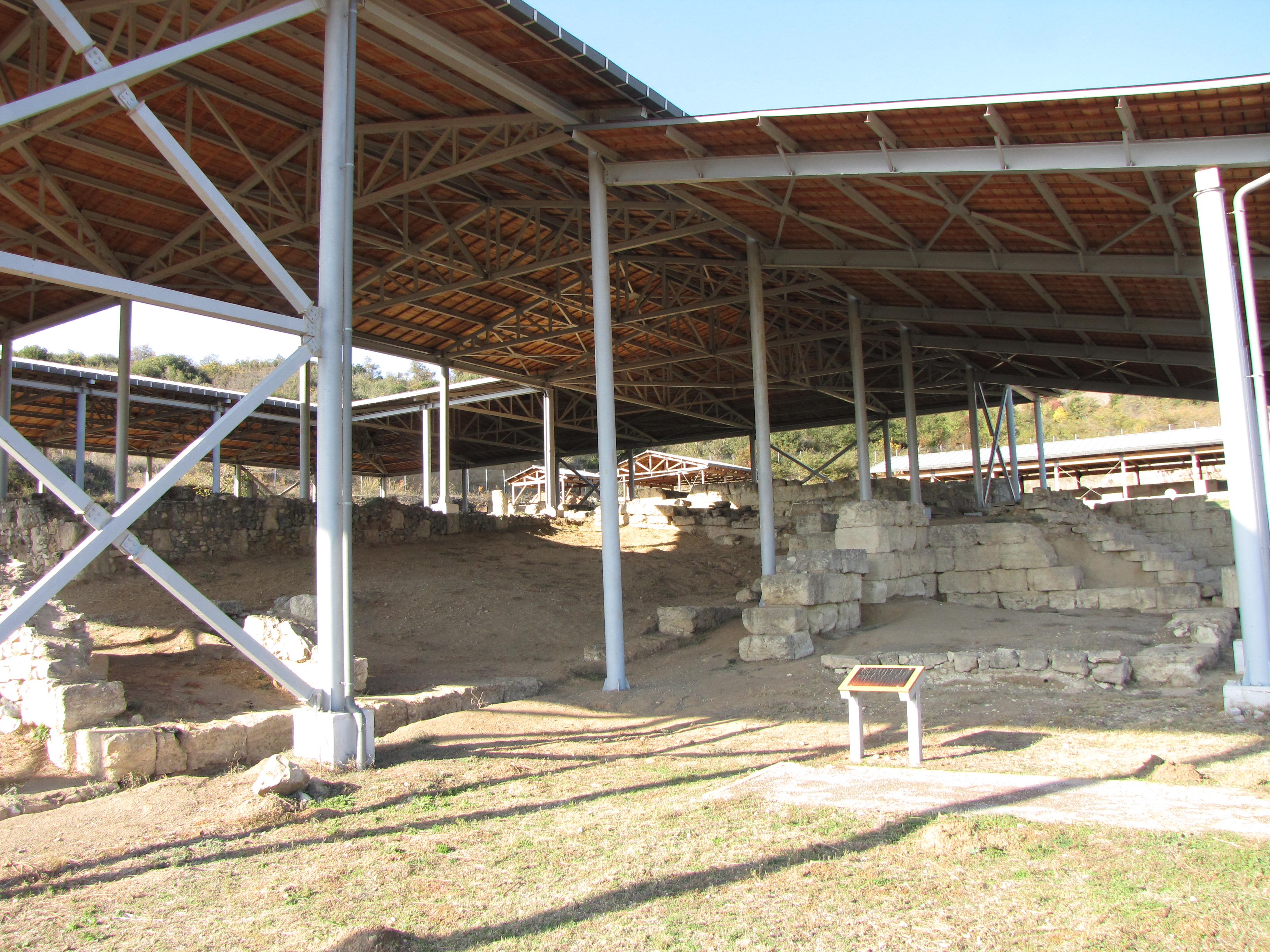 The Gymnasion of Amphipolis